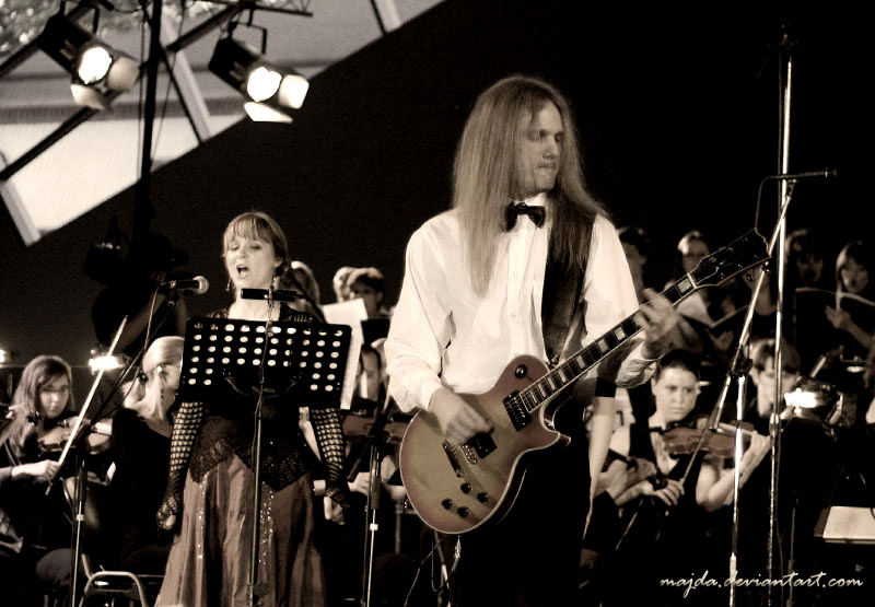 Lori Lewis and Christofer Johnsson, Miskolc (Hungary) 07